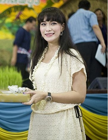 Chermarn Boonyasak in 2009.